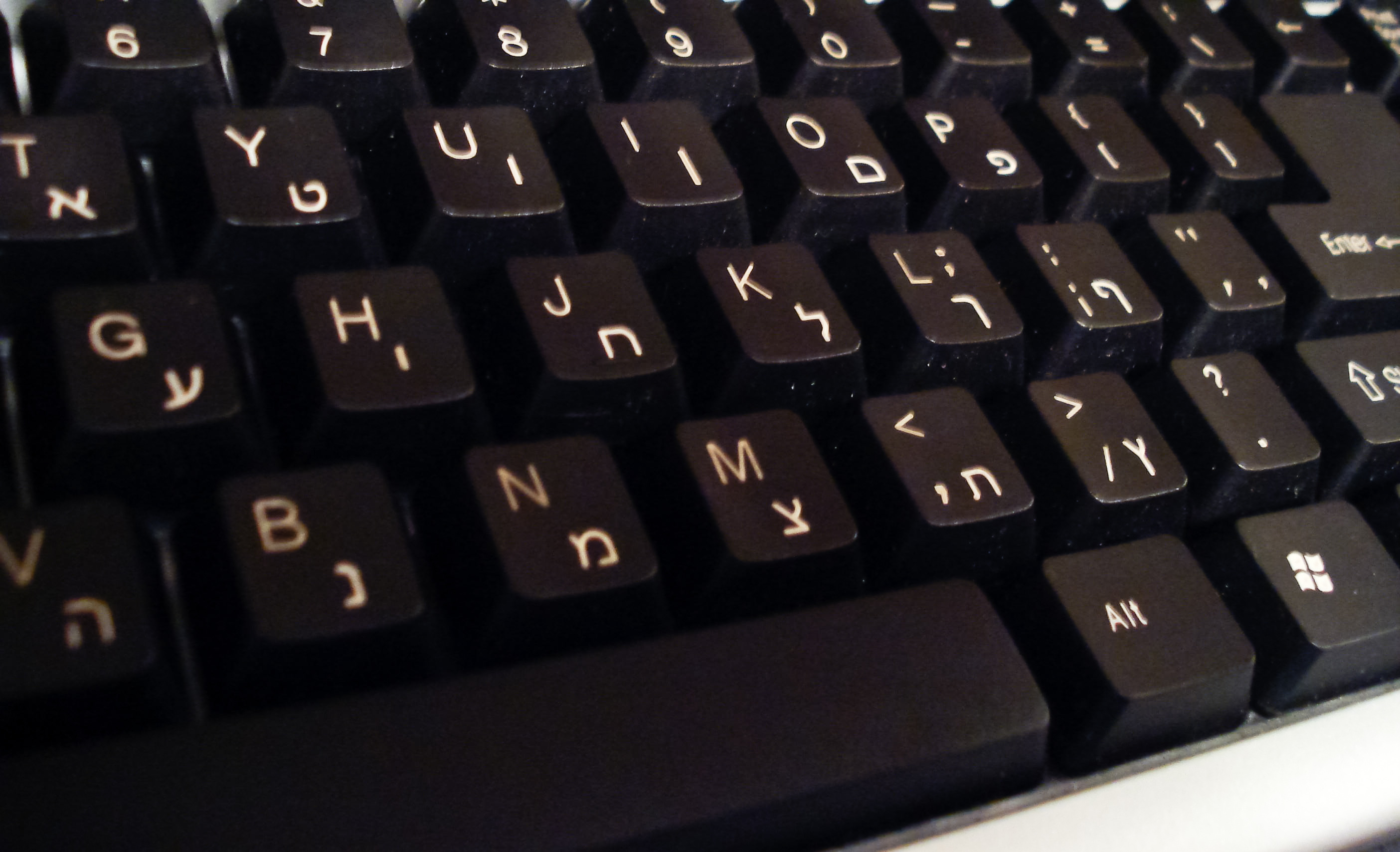 Layout of QWERTY combining with Hebrew